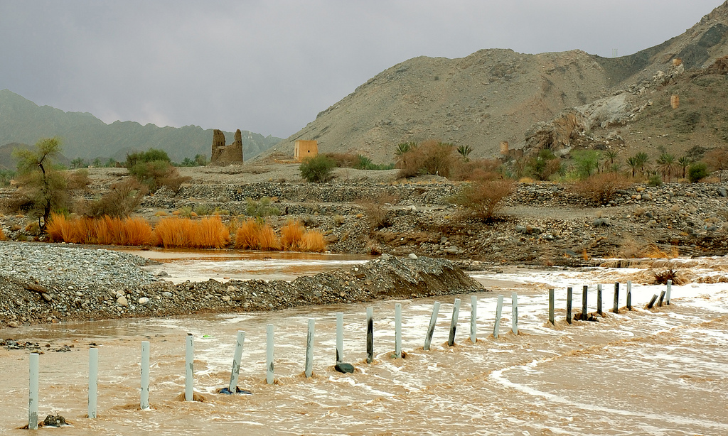 a view over wadi in Samail after Rain